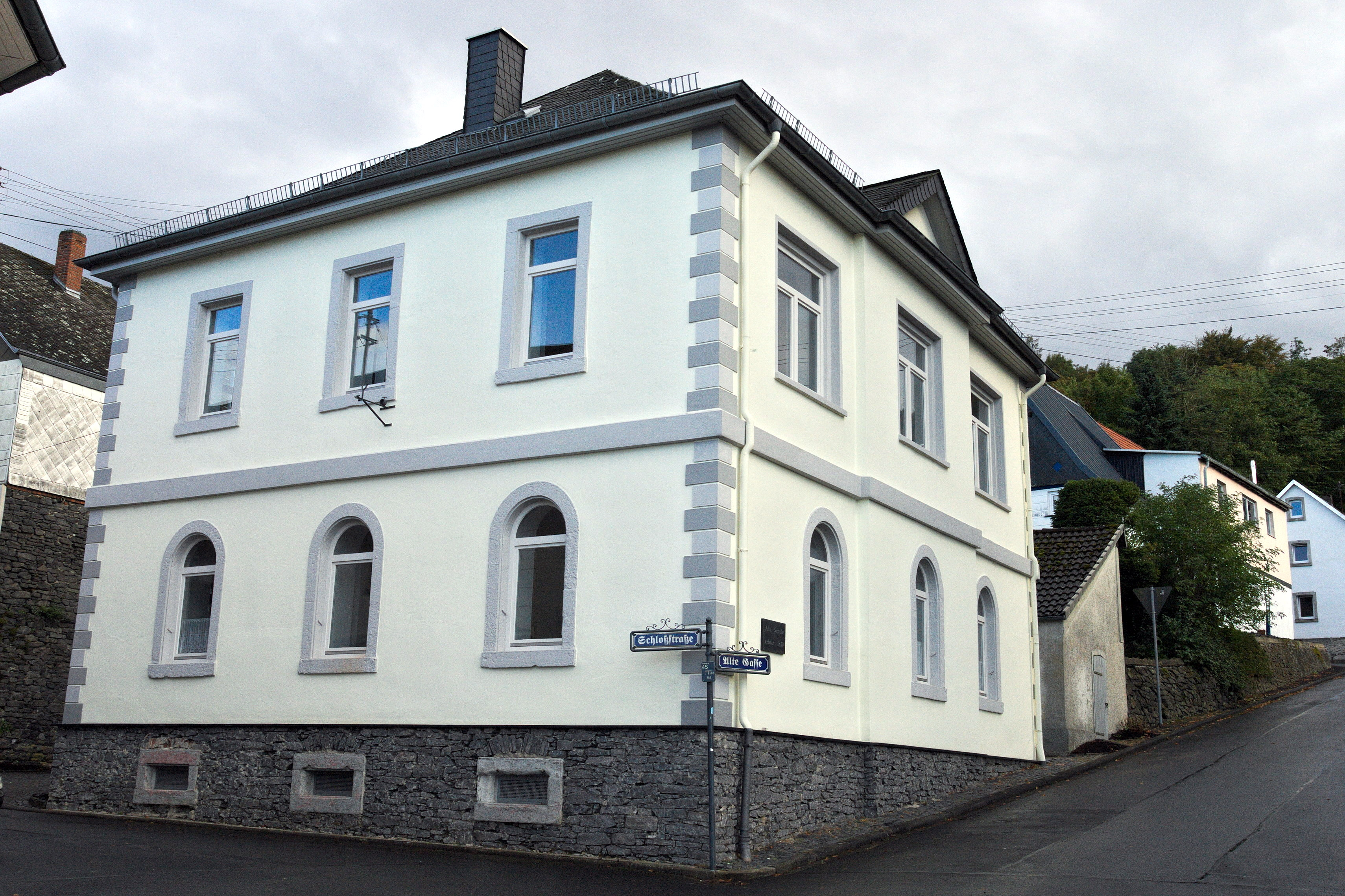 Cultural heritage monument old school in Molsberg, Westerwald region, Germany